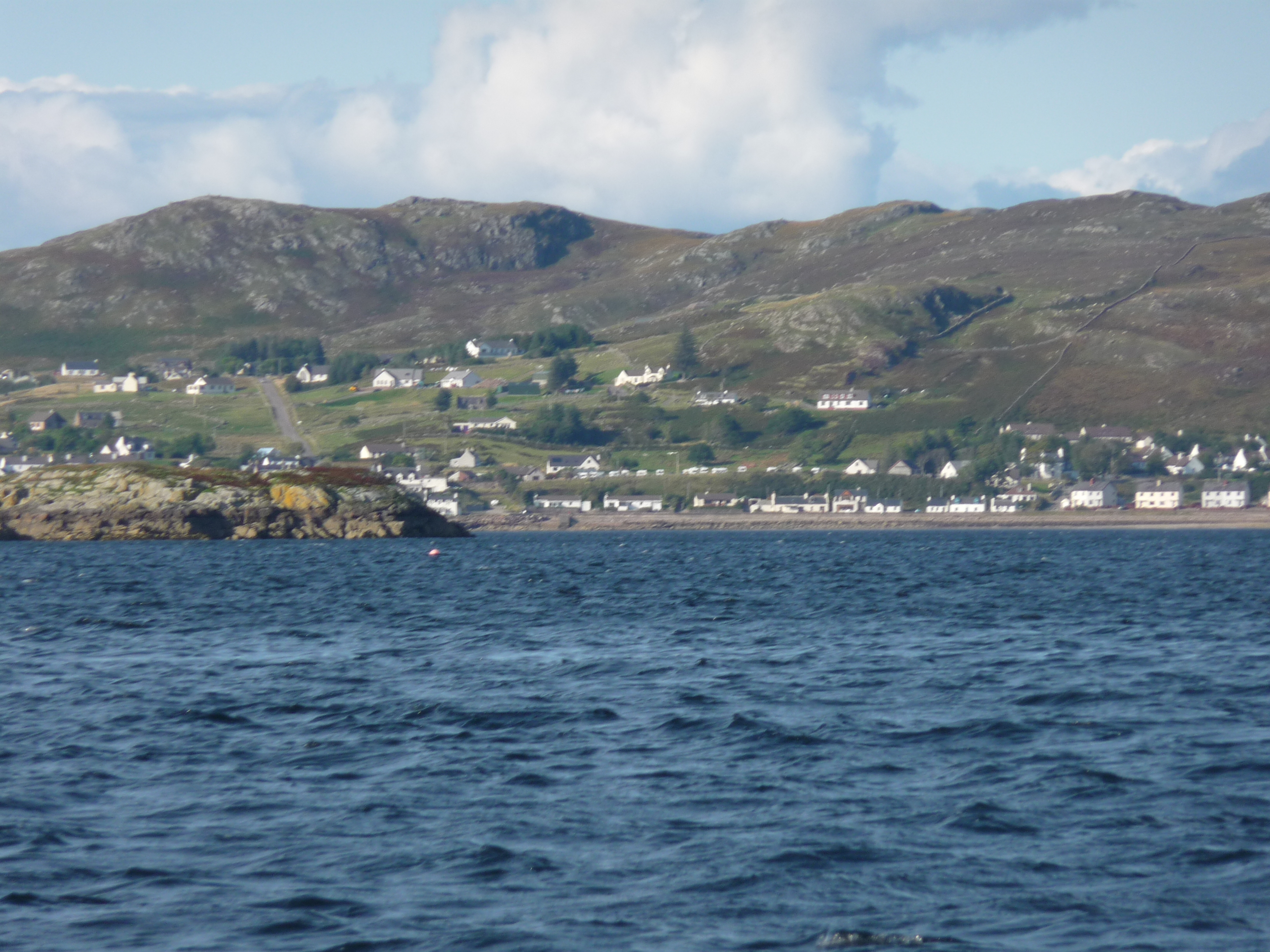 A closer view of Gairloch village centre.